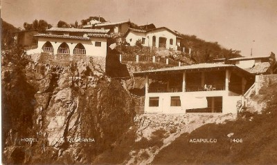 Hotel El Mirador